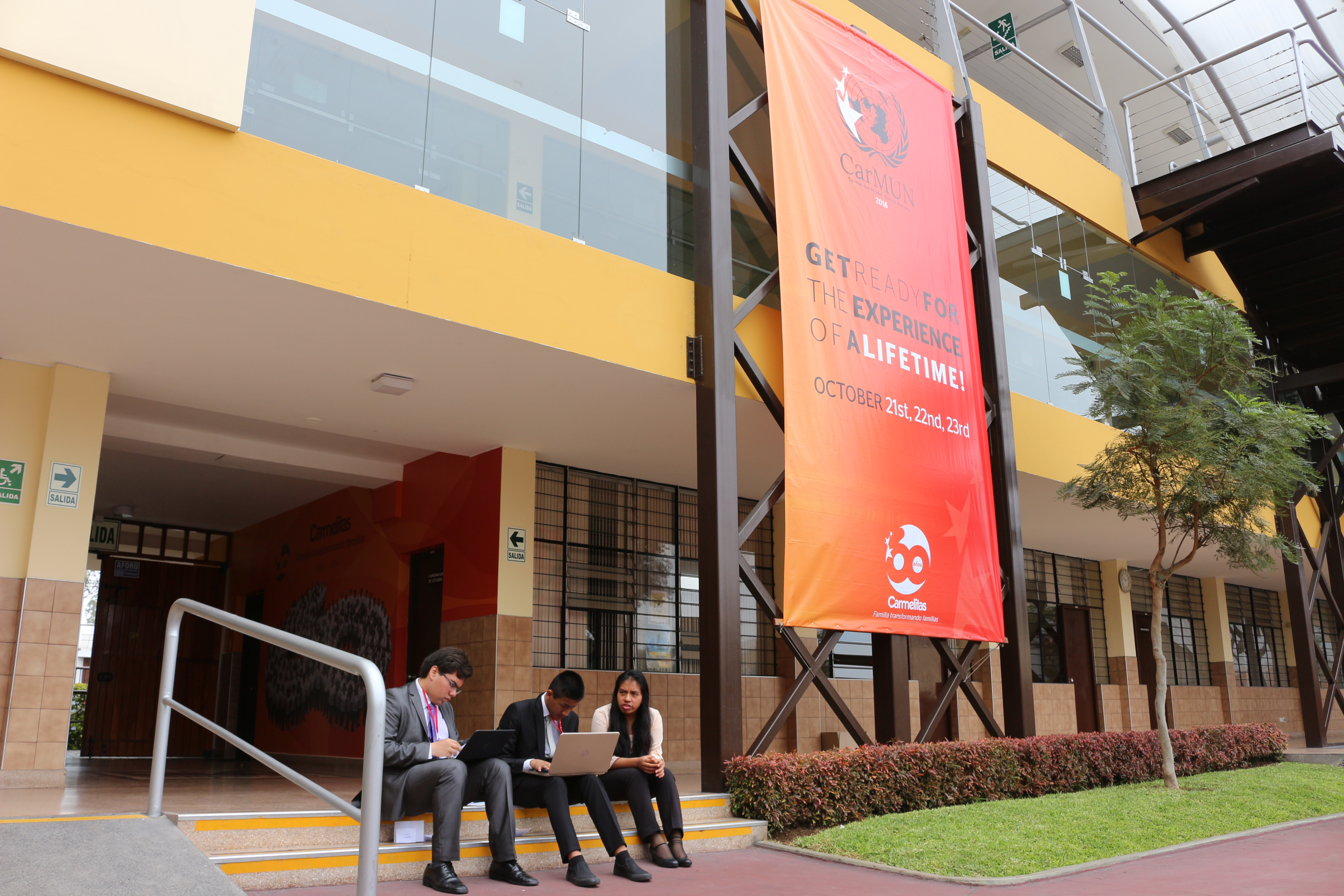 Carmelitas Model United Nations was a conference organised by one of the best debate teams in Peru, Colegio Carmelitas.